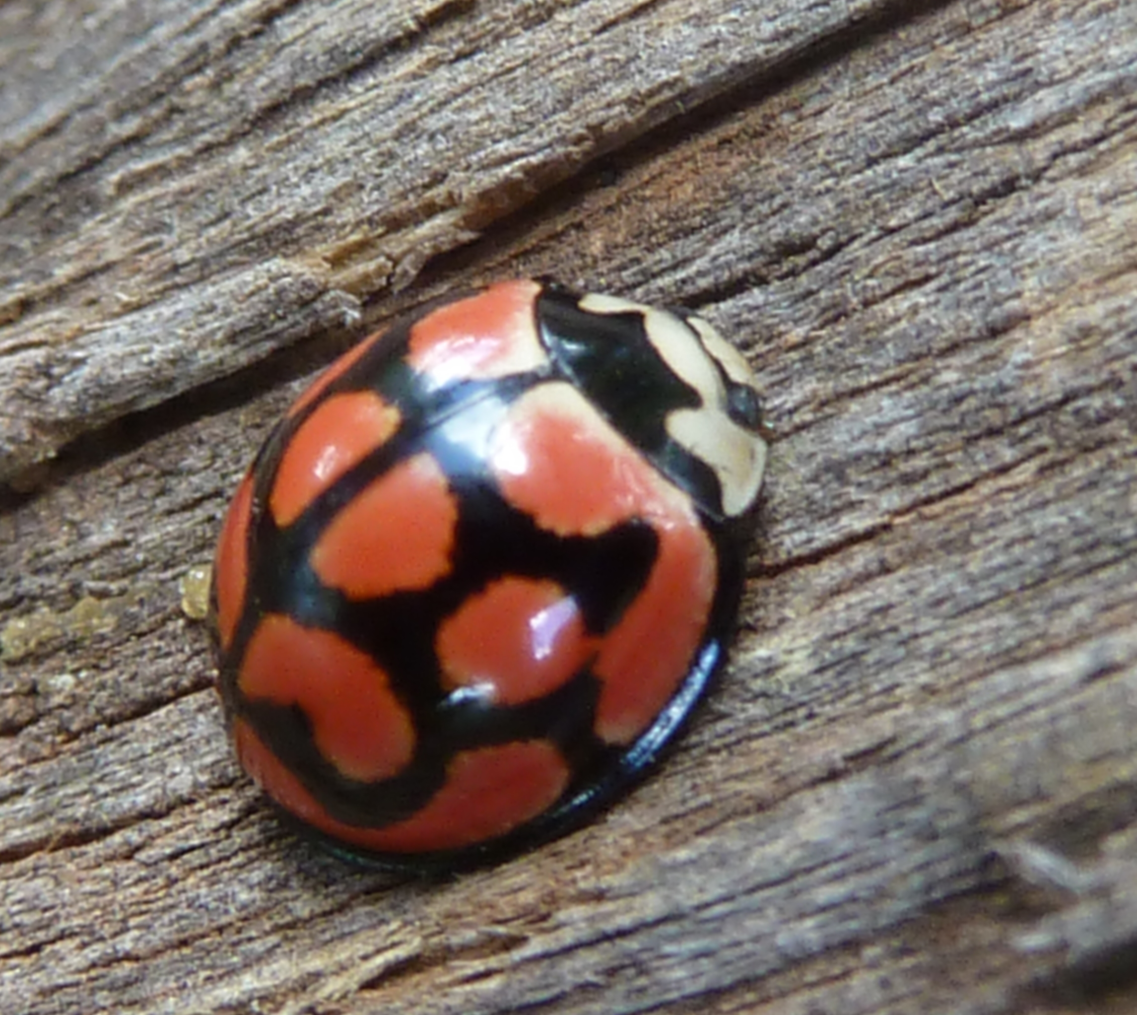 Cheilomenes lunata, one of a pair, at Krugersdorp, South Africa. Placed on wood for photography where it takes a defensive position. It also discharged some drops of yellow blood, seen at left, which are toxic to vertebrates. These are released from the articulations between the tibiae and femora.[1] ↑ Scholtz, Clarke H., et al. (1985) Insects of Southern Africa, Durban: Butterworths, p. 251 ISBN: 0409-10487-6.